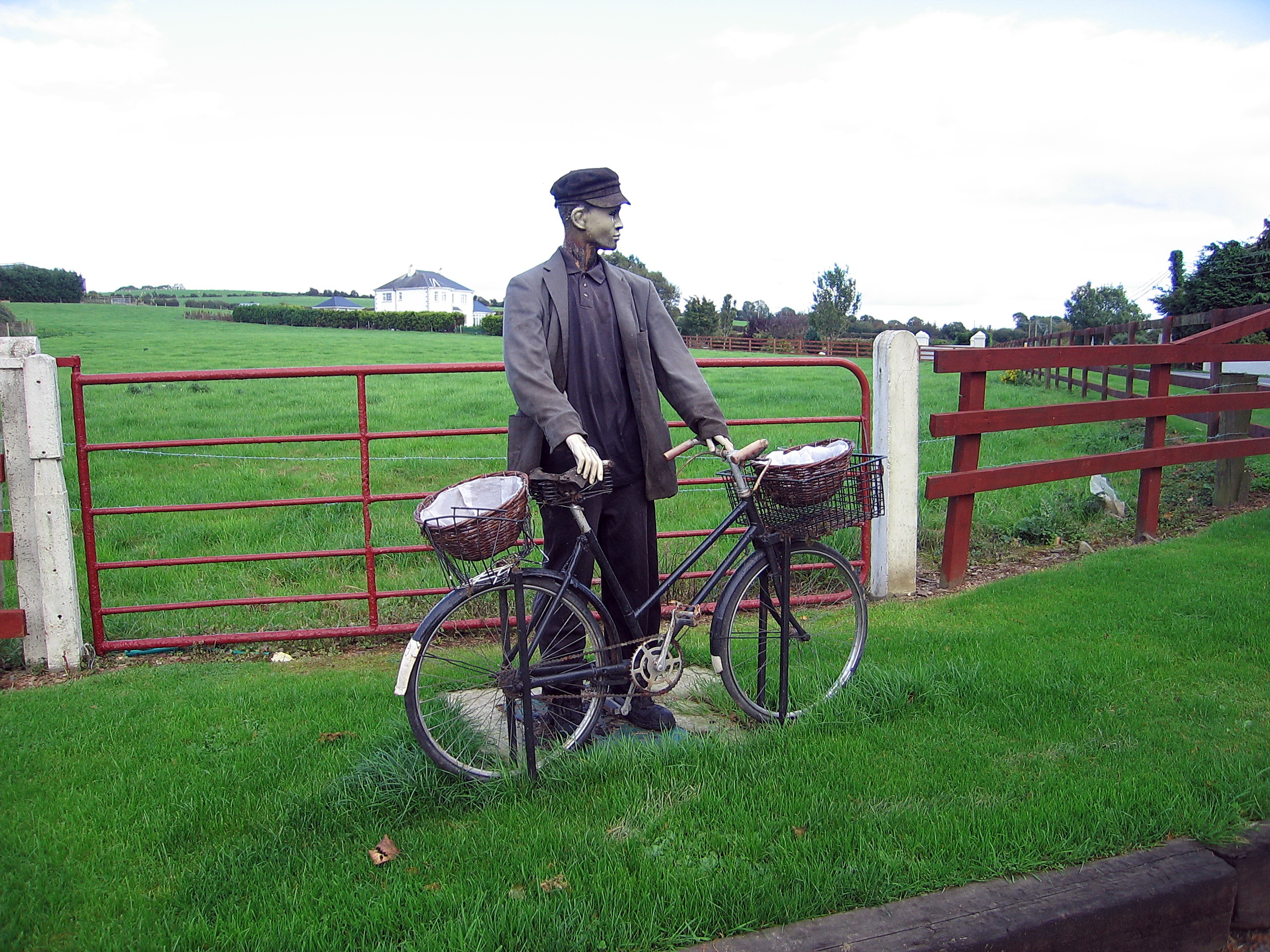 Craanford Community Watch; on the side of the R725. Since this picture was taken man and bike have moved.